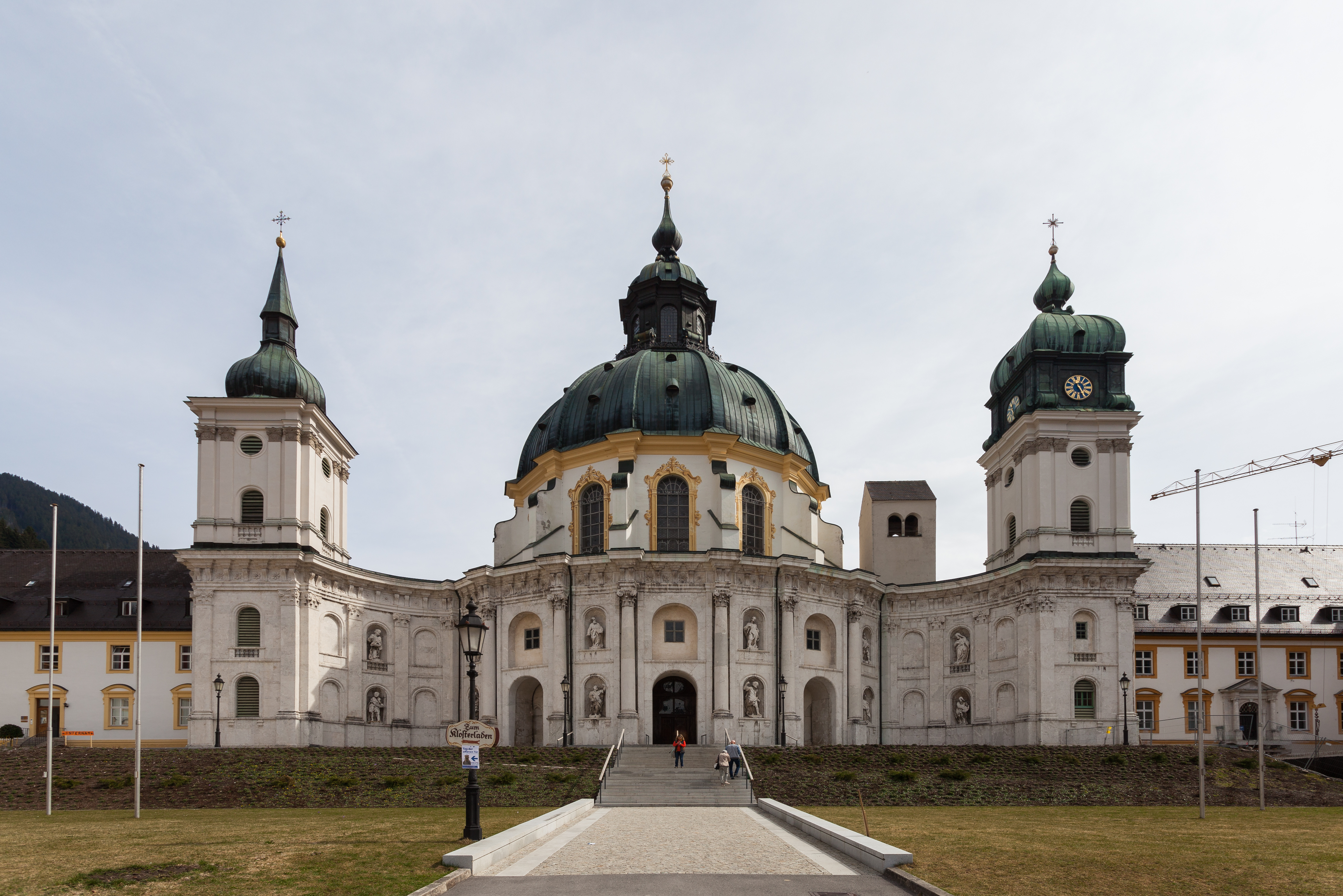 Ettal Abbey, Bavaria, Germany